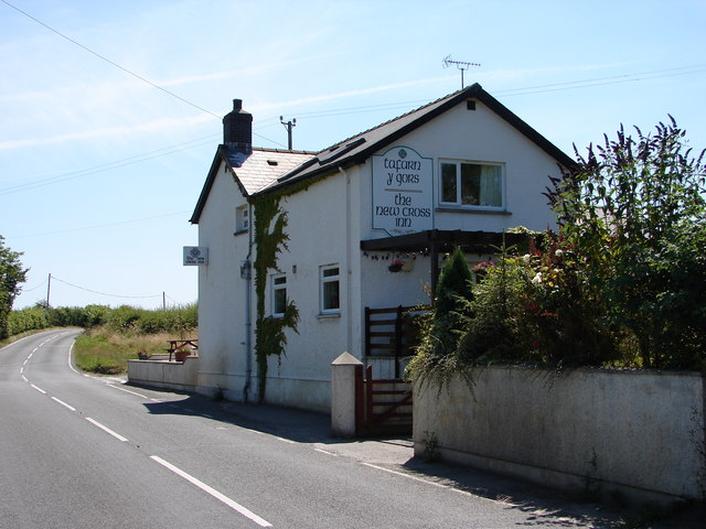 Tafarn y Gors/ New Cross Inn, near to New Cross, Ceredigion/Sir Ceredigion, Great Britain. Another view of the Inn.